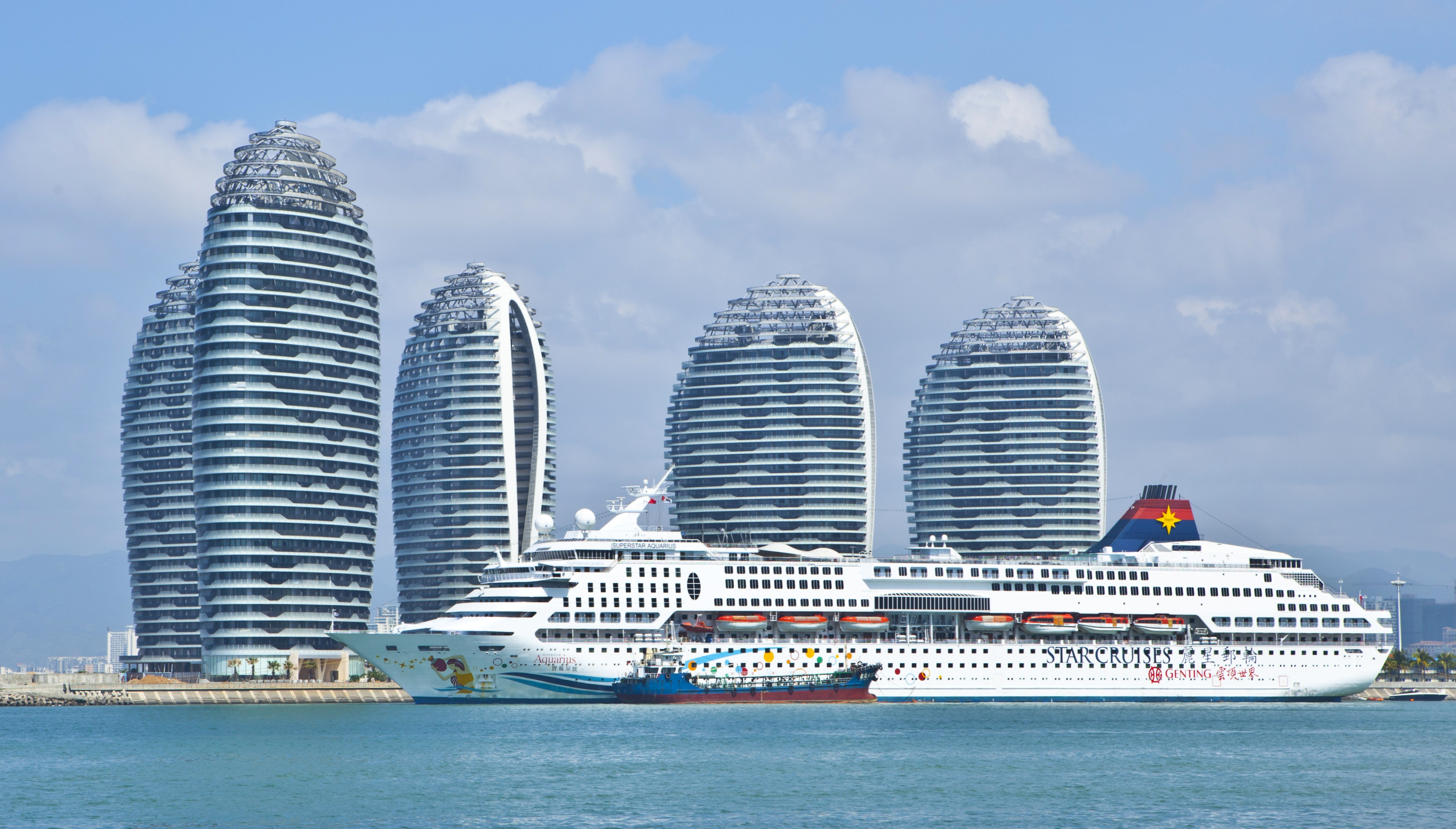 Superstar Aquarius (ship, 1993) at Phoenix Island, Sanya Bay, Hainan, China.